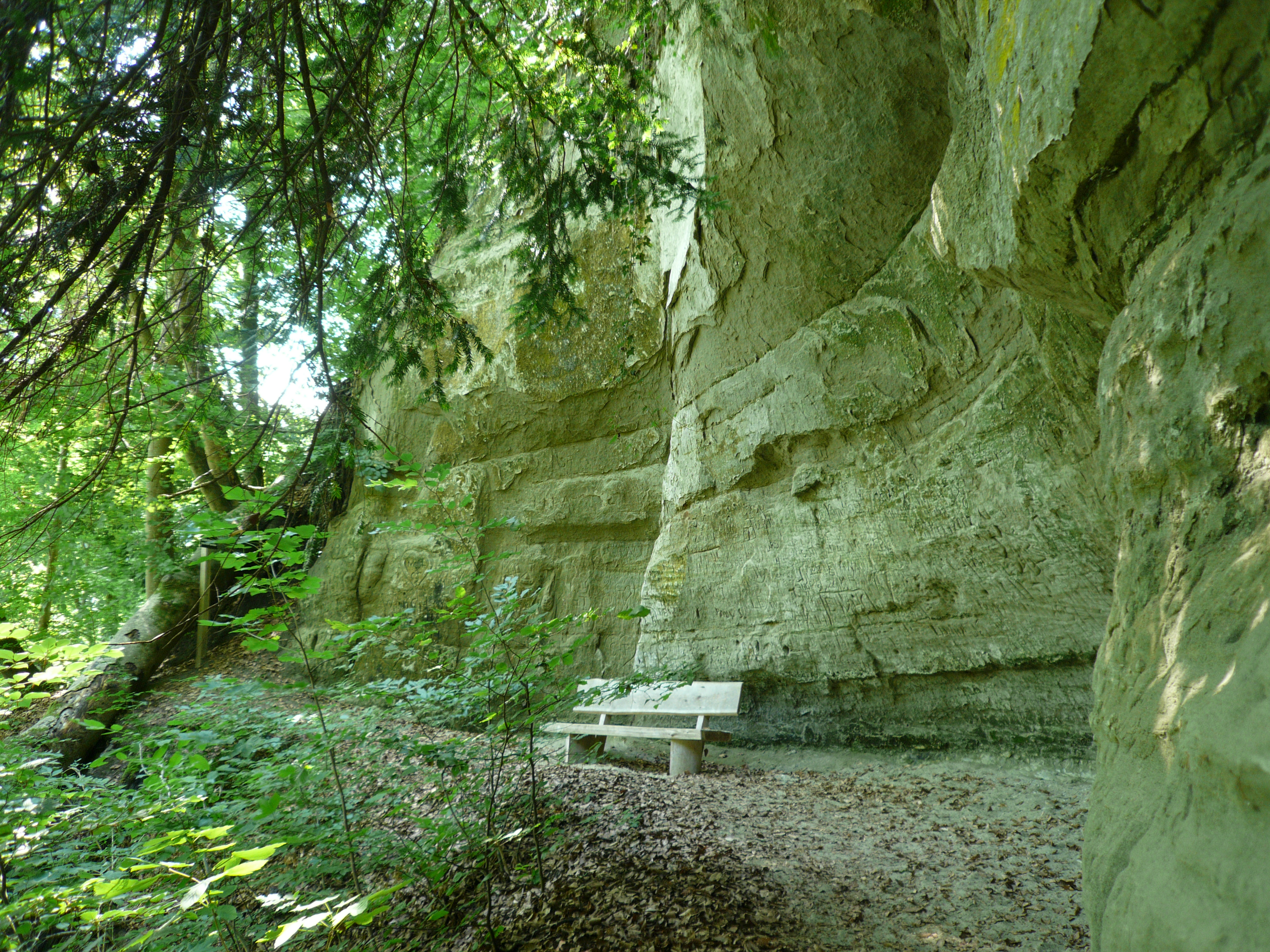 Echo spot on Bodanrueck